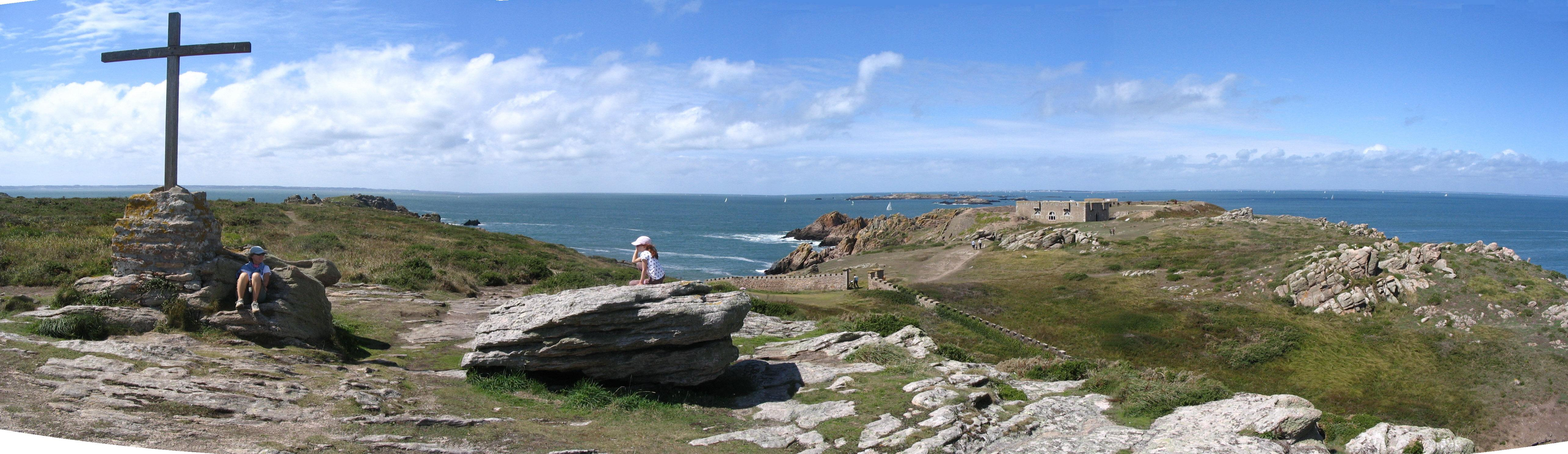 Houat island - Beg-Er-Vachif